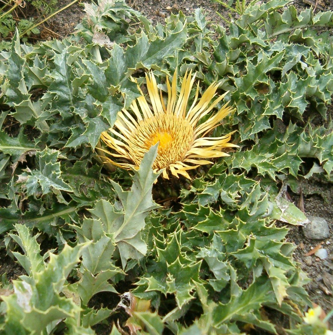 Location: Botanical Gardens Berlin Habitus and Inflorescence